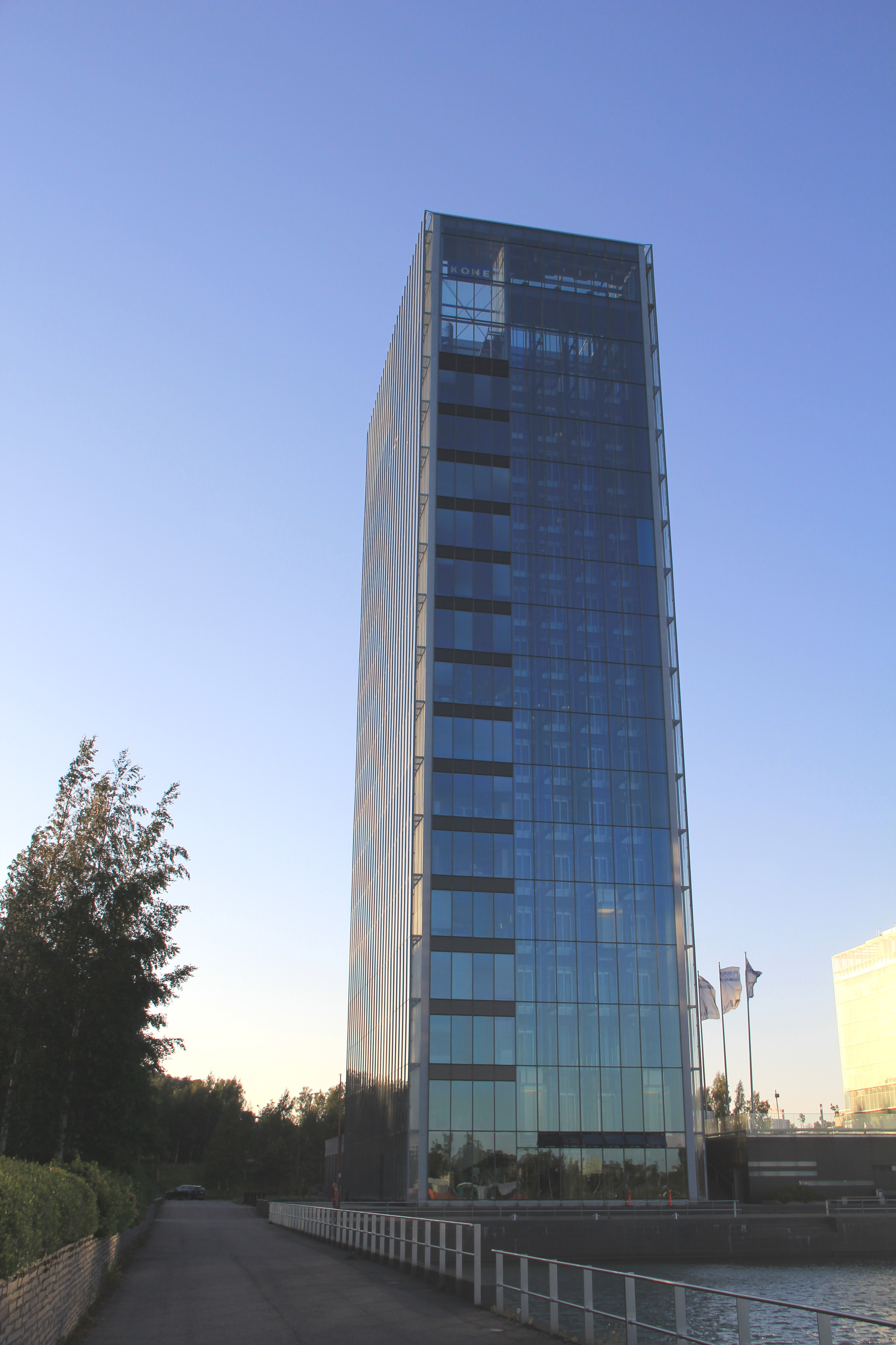 Kone Building, Keilaniemi, Espoo, Finland. Kone Corporation headquarters, completed 2001, architect Antti-Matti Siikala. Southern facade.